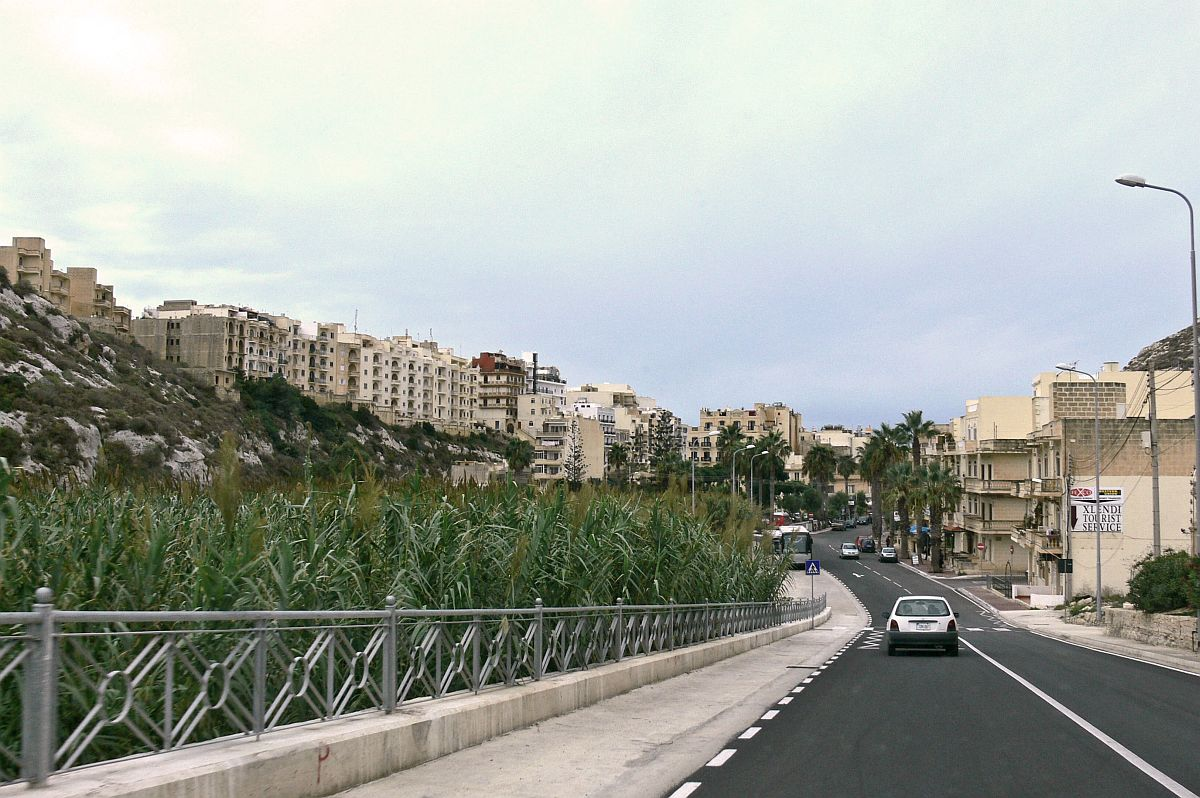 Arriving at Xlendi, Gozo, Malta